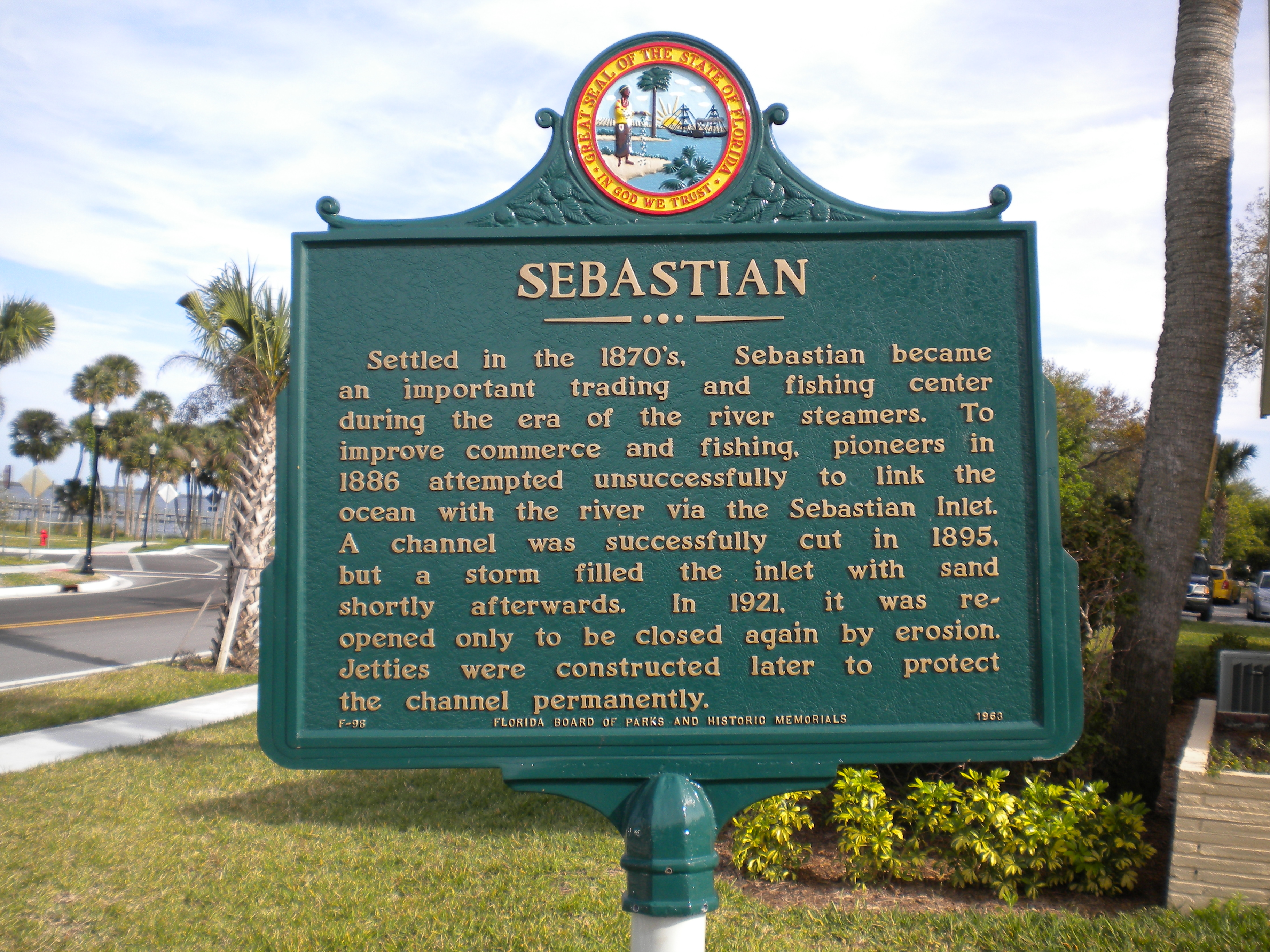 Sebastian historical marker in front of the Sebastian River Area Chamber of Commerce, 700 Main Street, Sebastian, Florida.